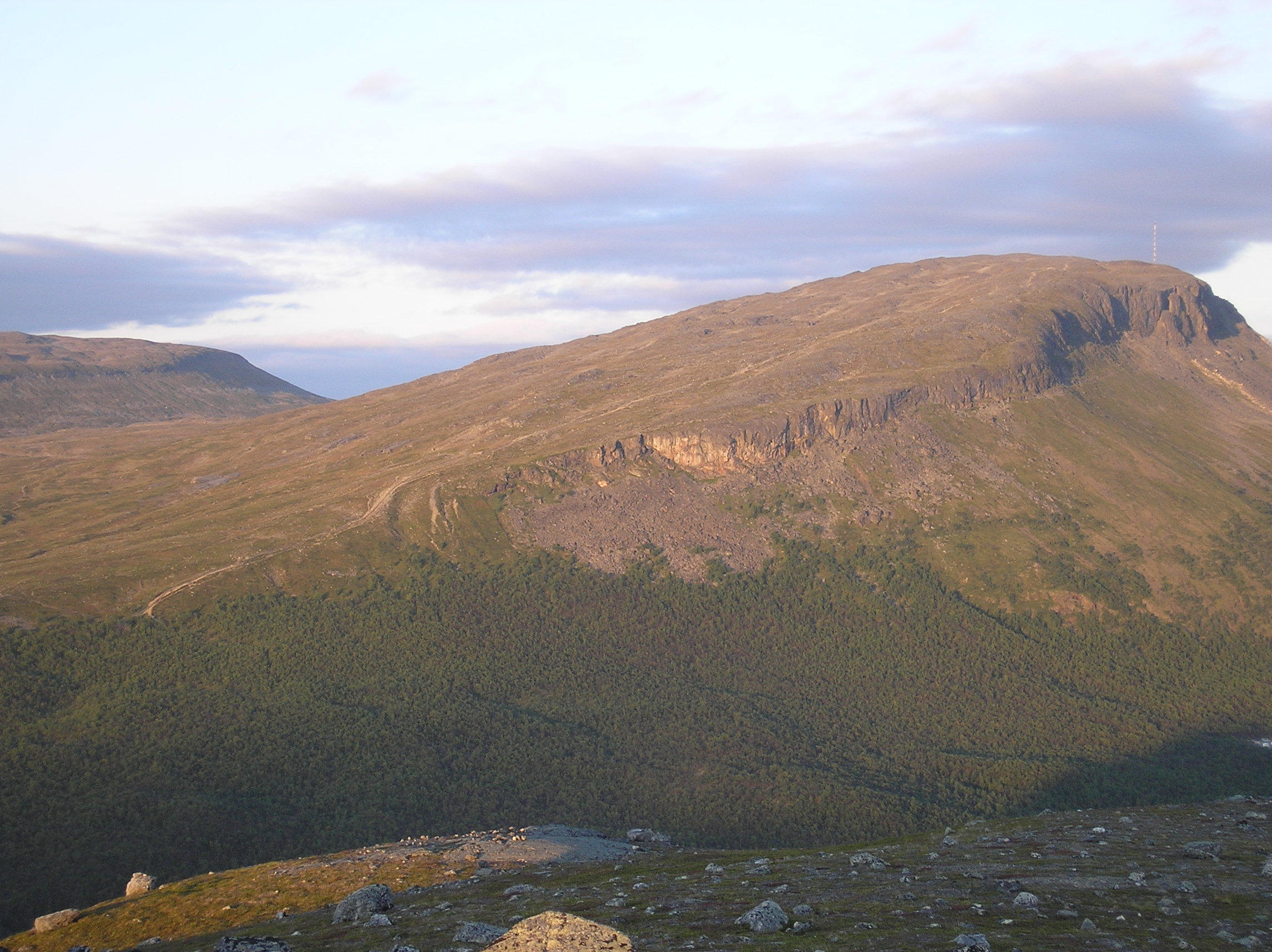 Saana, one of the highest fells in Finnish Lapland, seen from northwest. The hiking path to the top of Saana is clearly visible on the northern slope. Picture taken from the top of Pikku-Malla in Malla Strict Nature Reserve.